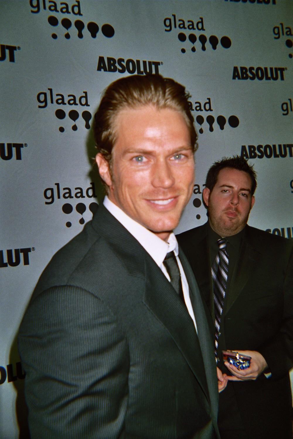 Actor Jason Lewis at 2007 GLAAD Awards.